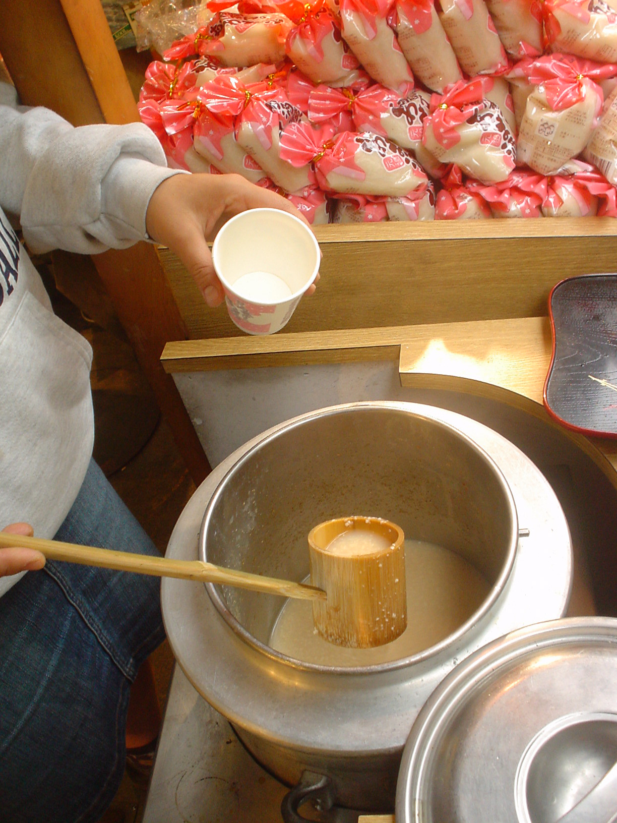 A man pouring rice milk from a container at a Japanese shop